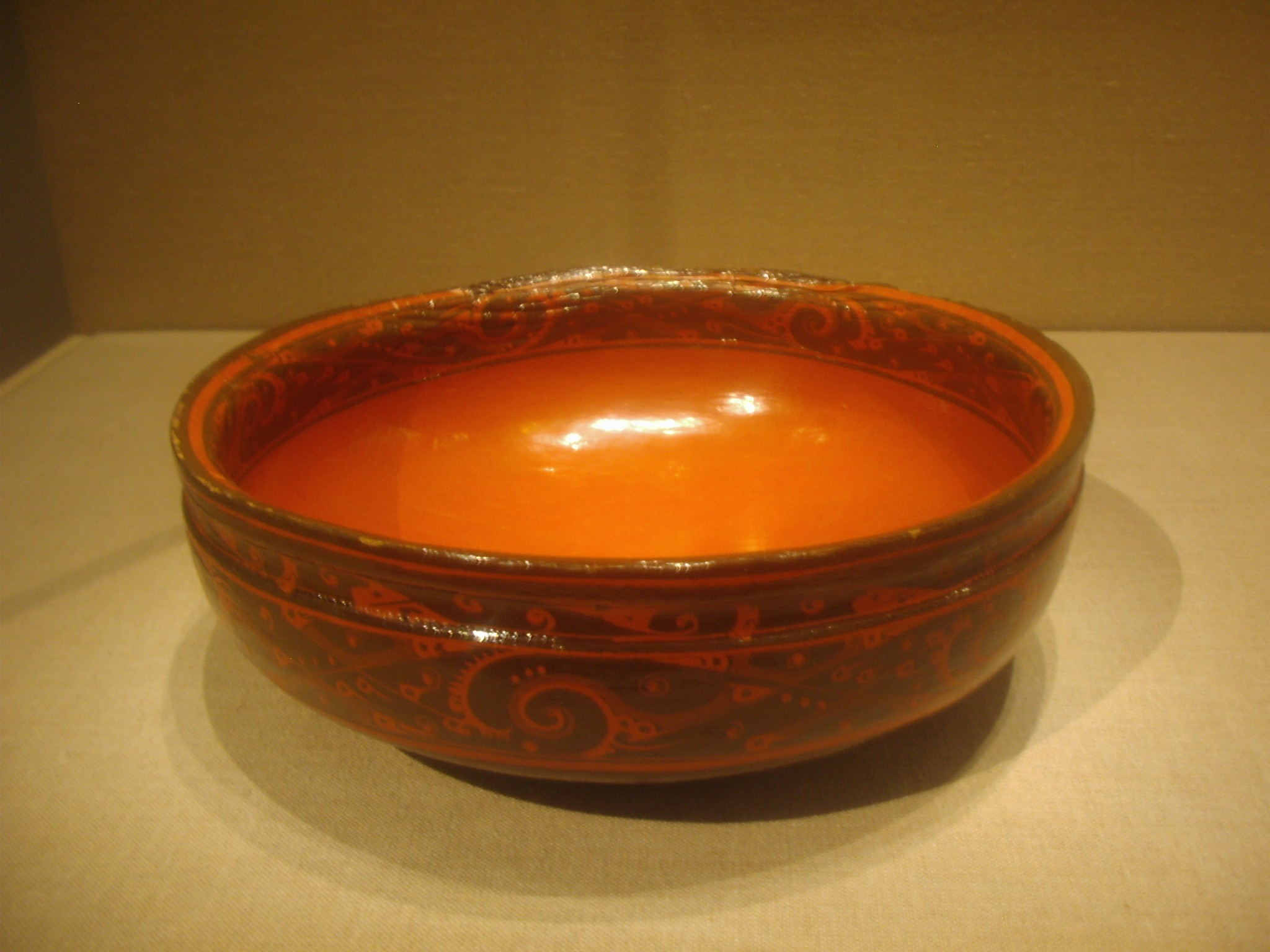 A red and black lacquer bowl with a geometric design, from the Chinese Western Han Dynasty (202 BC–9 AD), dated 2nd century BC.